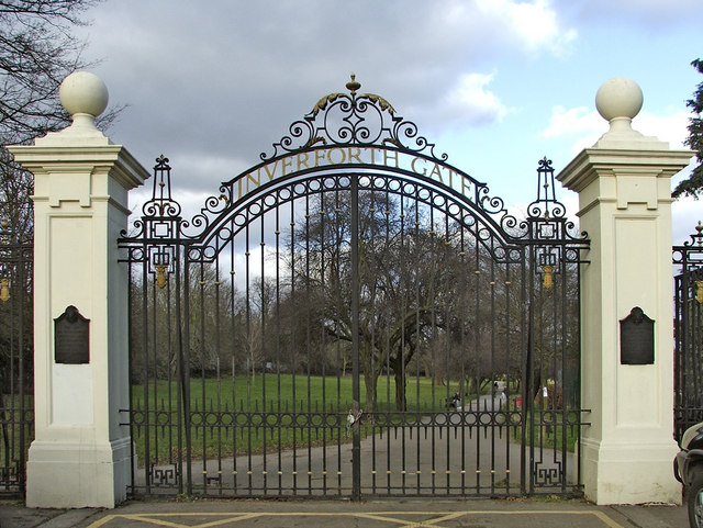 Inverforth Gate, Grovelands Park, Southgate, London, N14 Main entrance to Grovelands Park from Bourne Hill, N14. The gates are named after Lord Inverforth